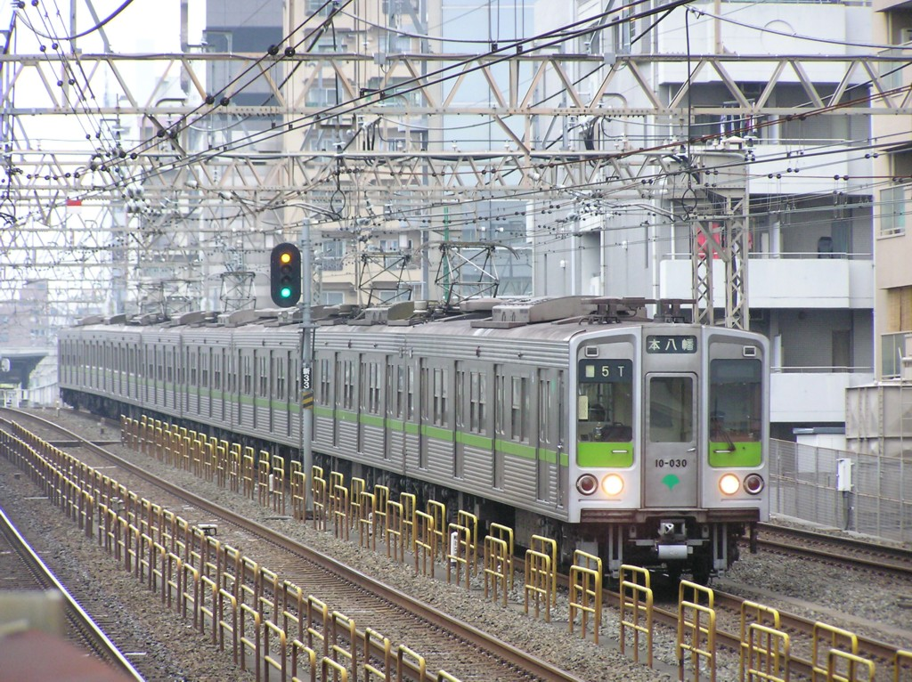 Toei 10-000 series EMU set 10-030